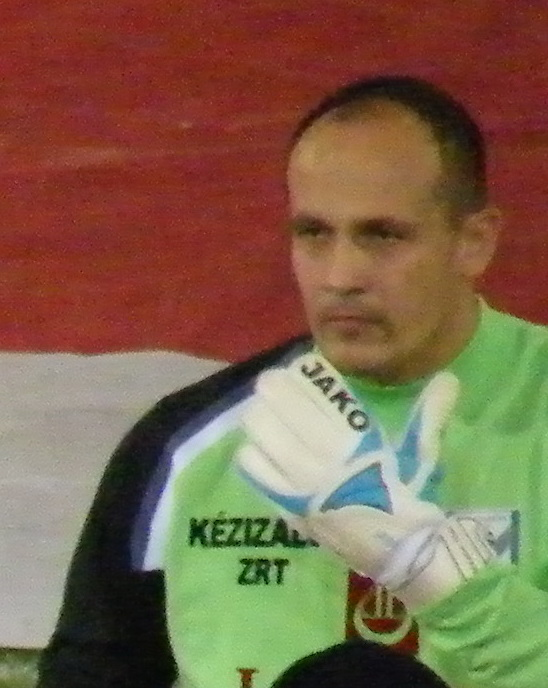 Lajos Szűcs Hungarian association football player.